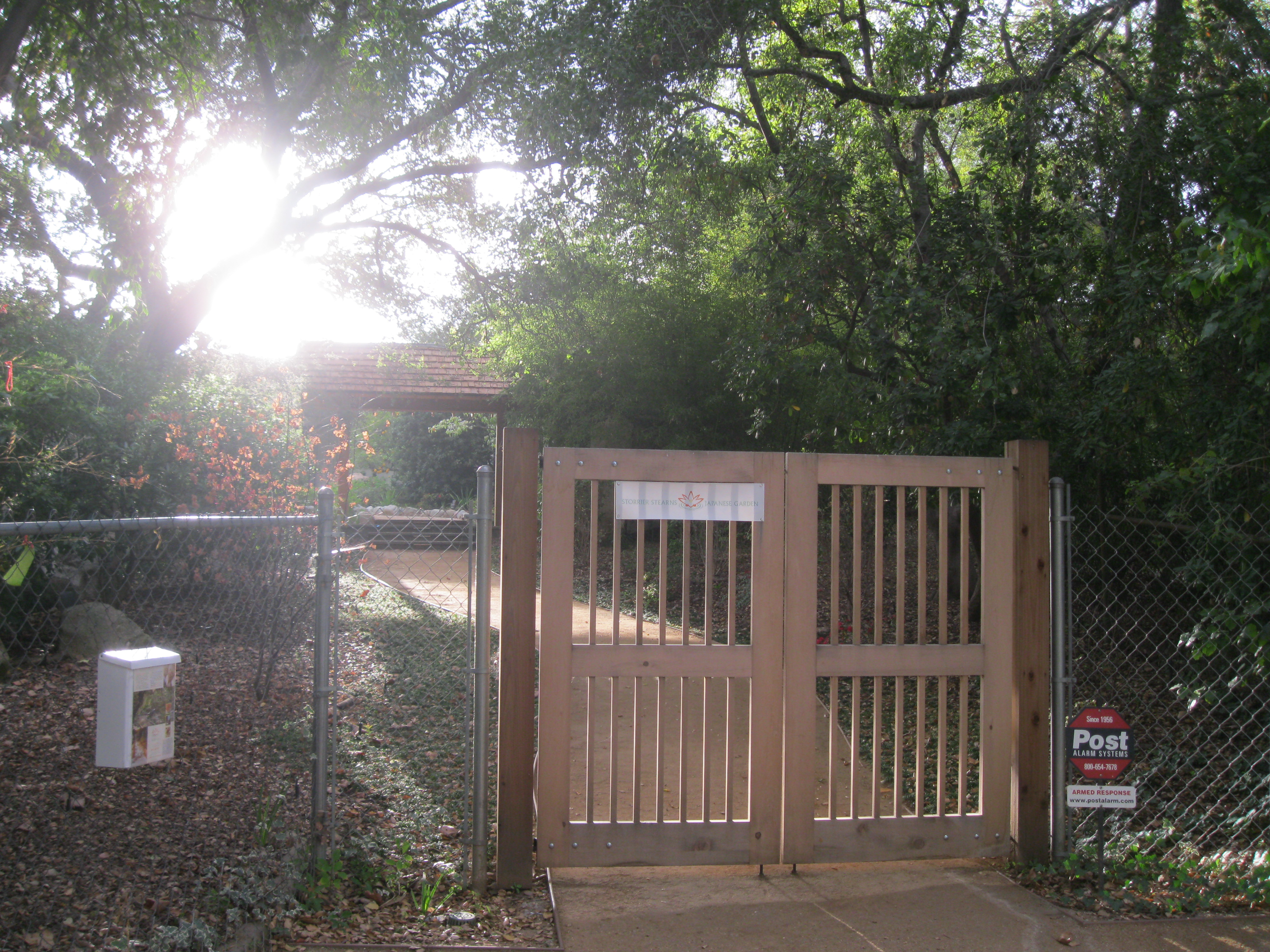 The entrance to the Storrier-Stearns Japanese Garden in Pasadena, California, which is listed on the National Register of Historic Places.